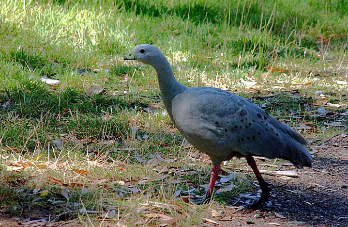 CAPE BARREN GOOSE – A VERY ENDANGERED SPECIES in the Cleland Wildlife Park